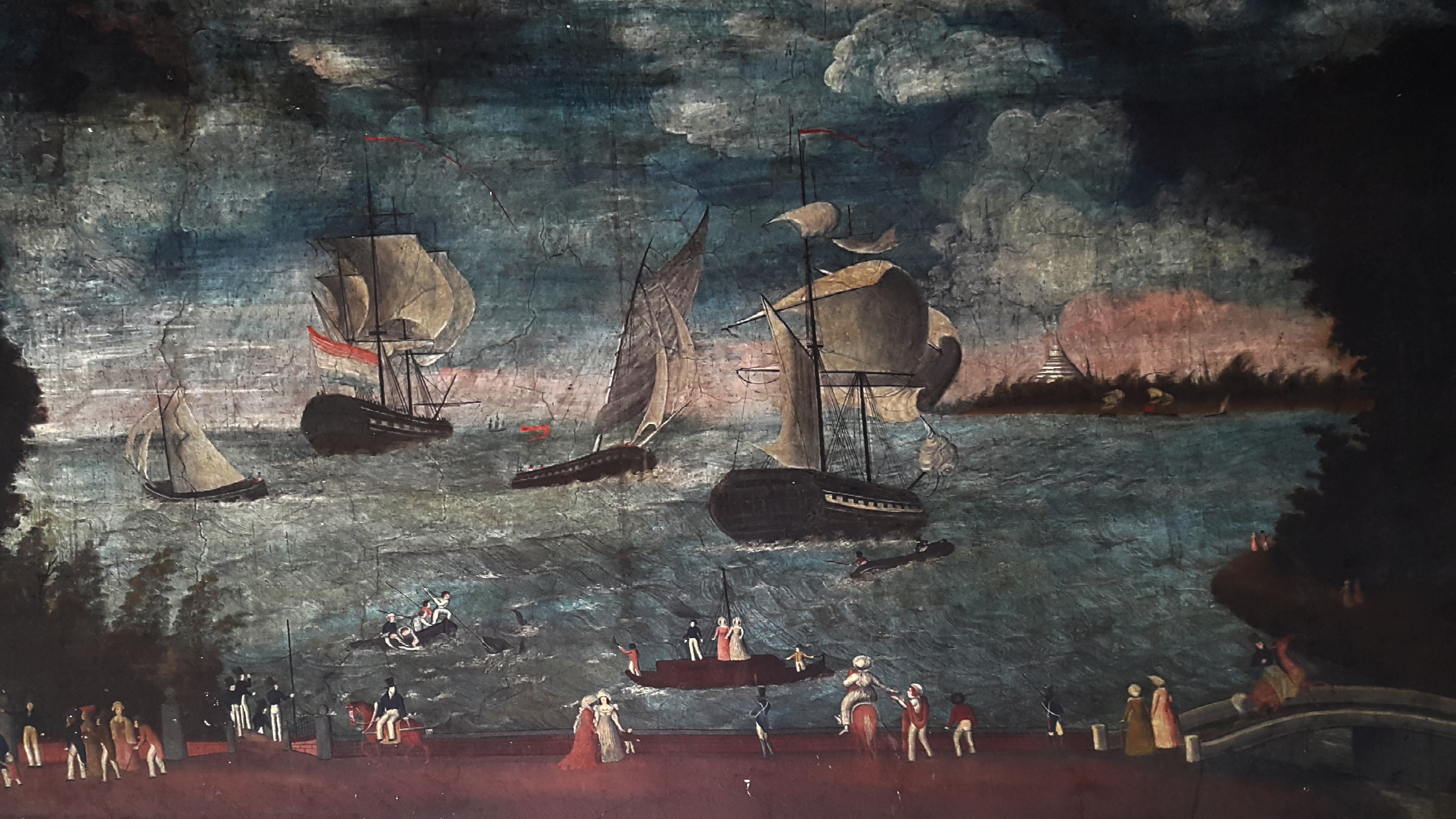 Mural in Wat Borom Niwat, Bangkok, Thailand